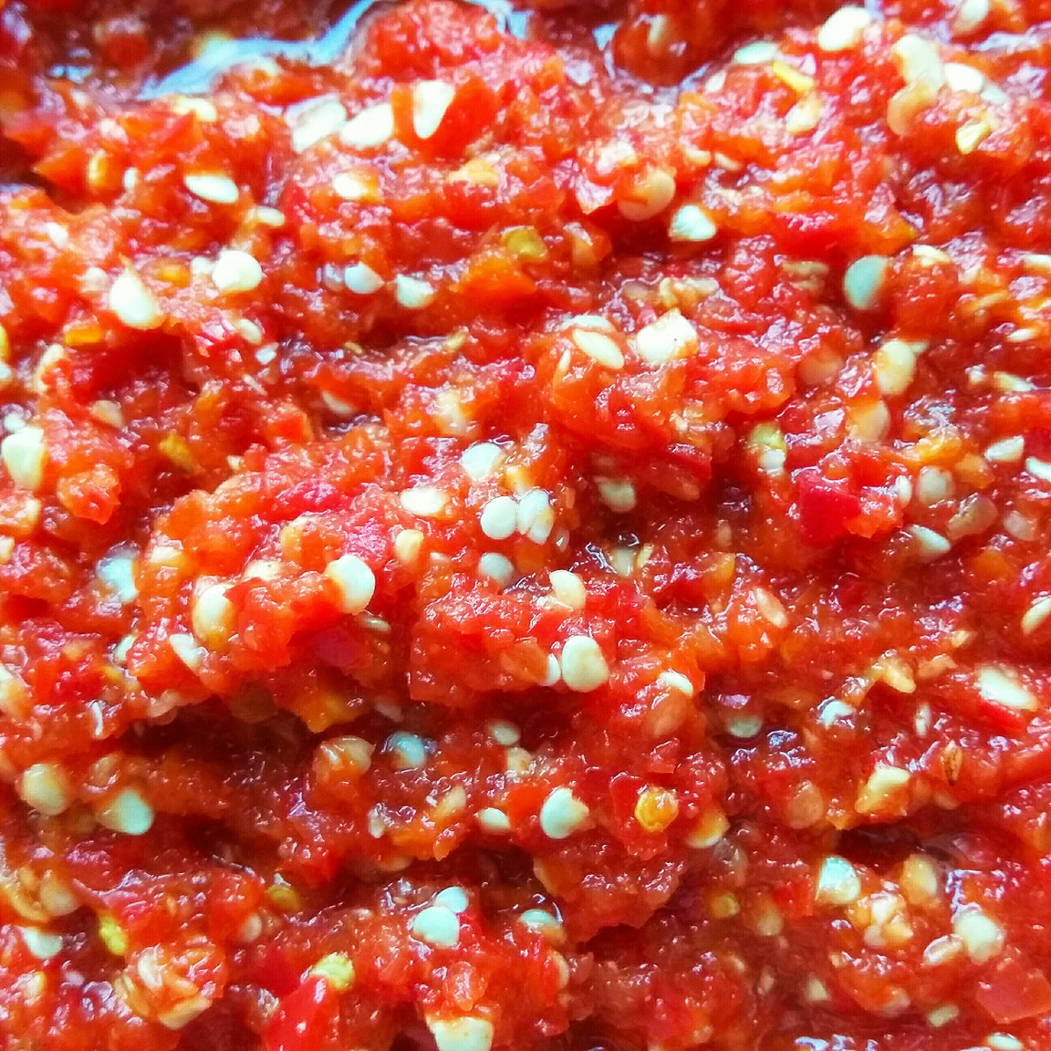 Homemade Erős Pista hot sauceEsperanto: Hejmfarita hungara kapsika saŭco Erős Pista (Forta Steĉjo)